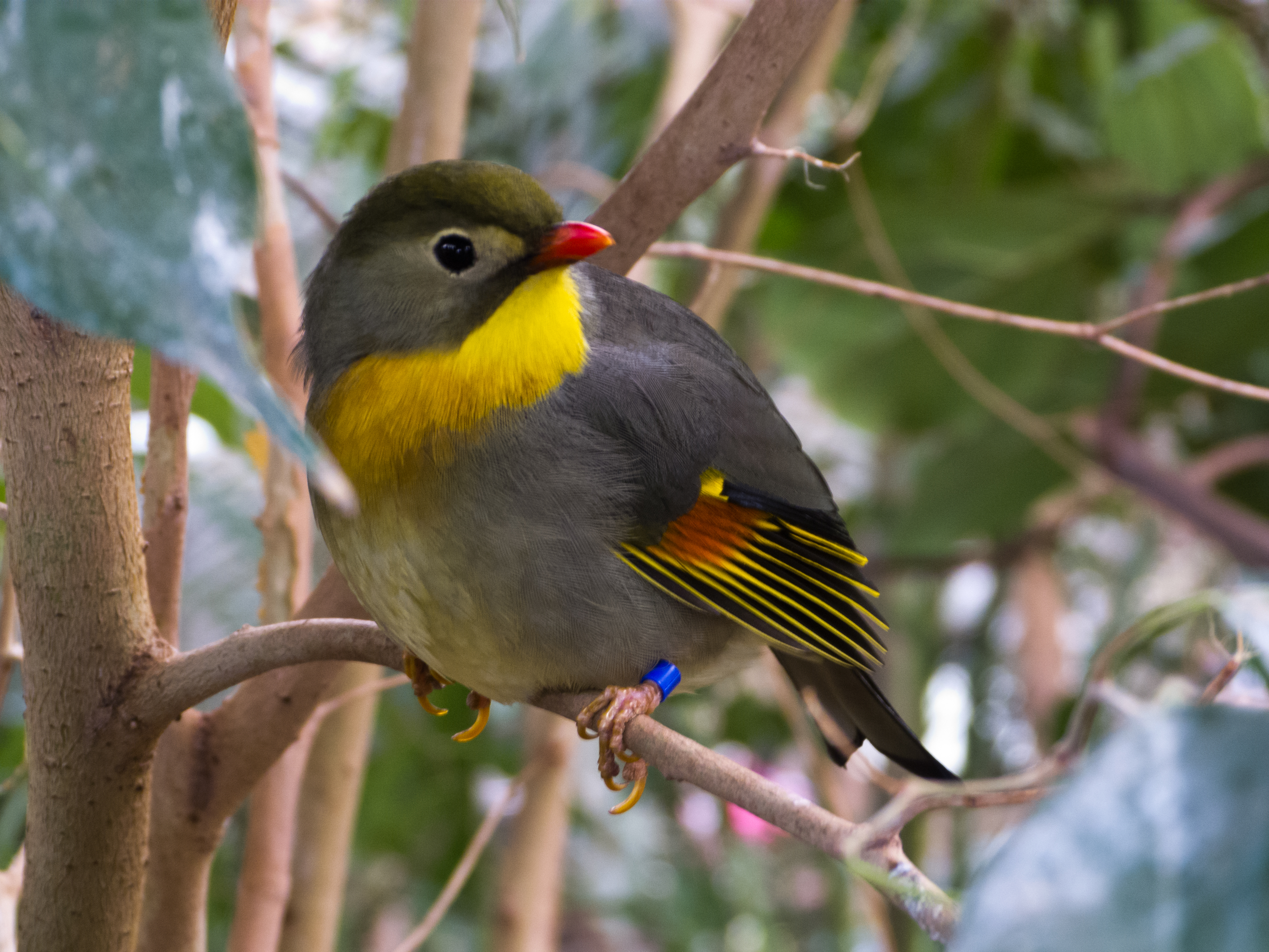 A male Red-billed Leiothrix at Chester Zoo, Cheshire, England.